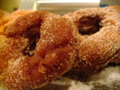 Doughnuts made with apple cider, spiced with cinnamon.